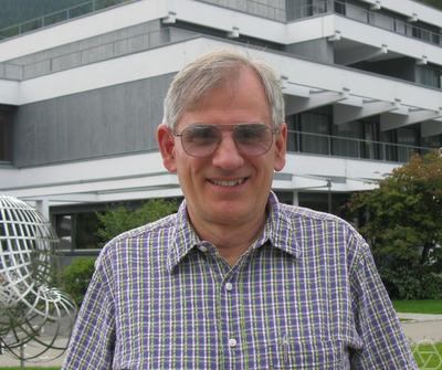 Photo of Laszlo Babai